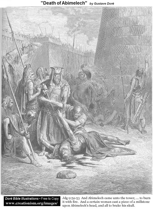 The Death of Abimelech (Jud. 9:50-56) Judges 9:52-53 So Abimelech came to the tower and fought against it, and approached the entrance of the tower to burn it with fire. But a certain woman threw an upper millstone on Abimelech's head, crushing his skull